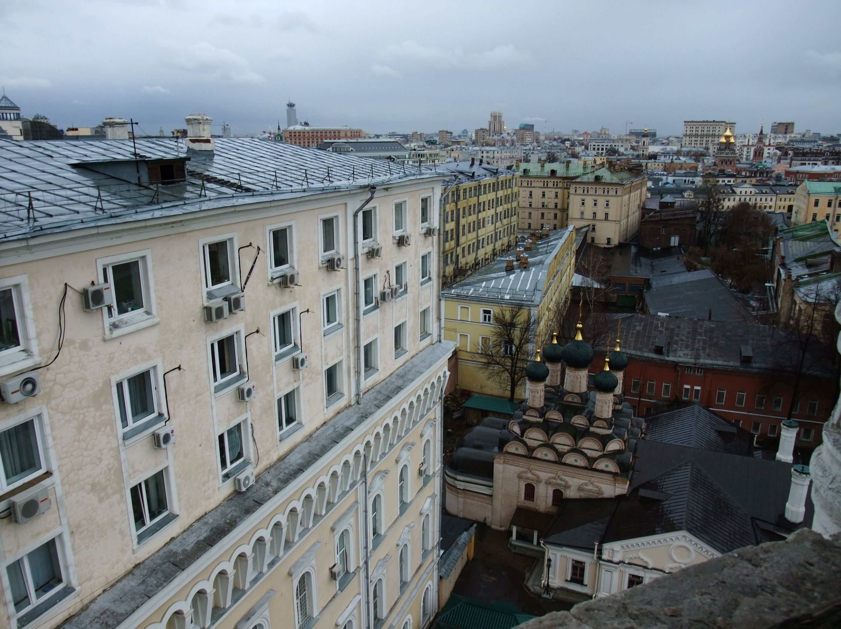 Храм Святой Софии в САдовниках в Москве